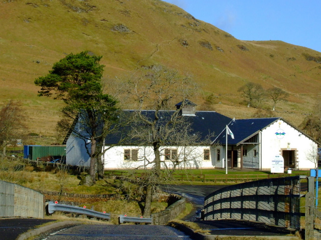 Industrial aqueduct heritage centre